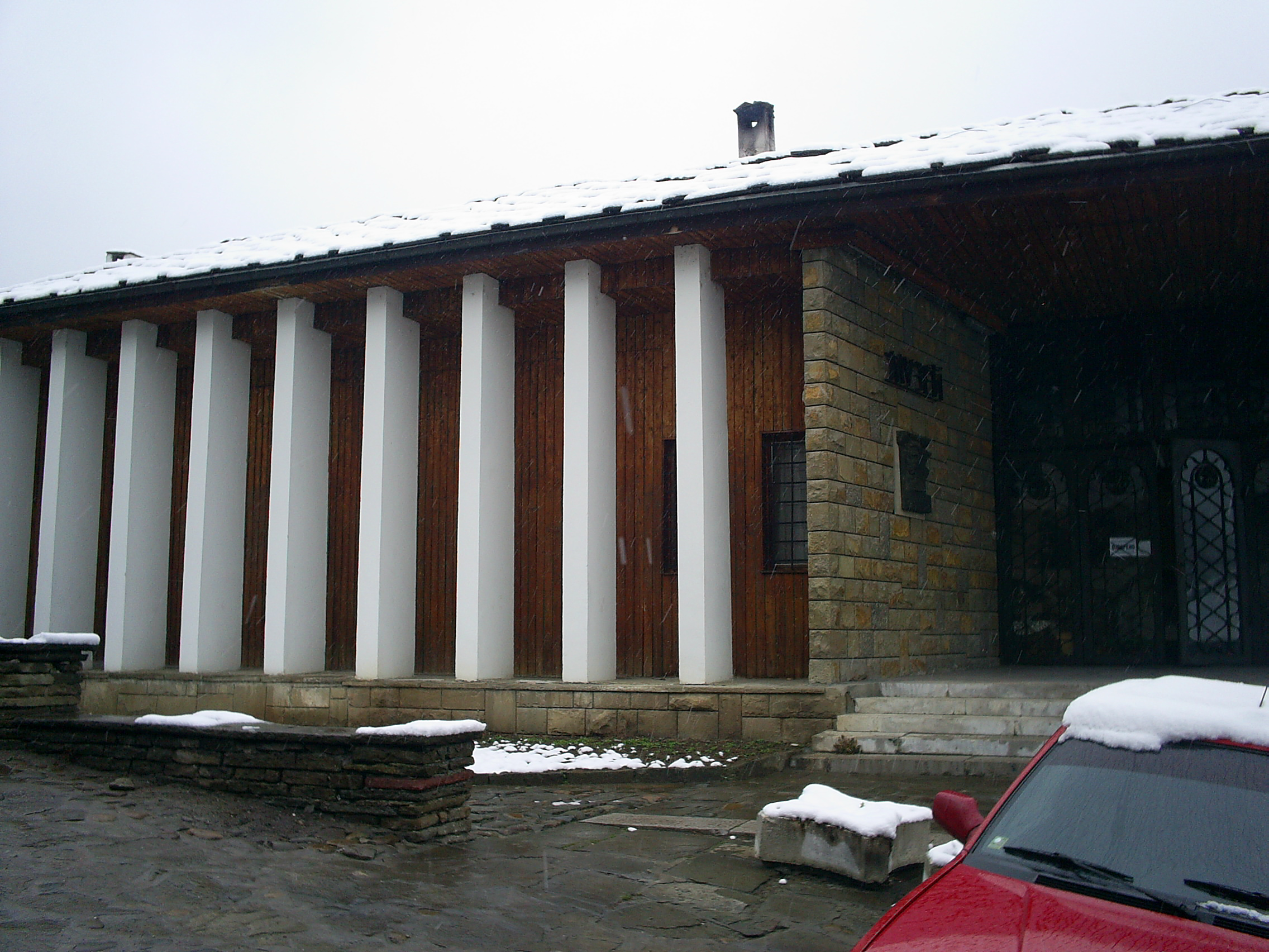 Lovech - Museum of Vasil Levski - Bulgarian revolutionary, ideologist, strategist and theoretician of the Bulgarian national revolution and leader of the struggle for liberation from Ottoman rule.